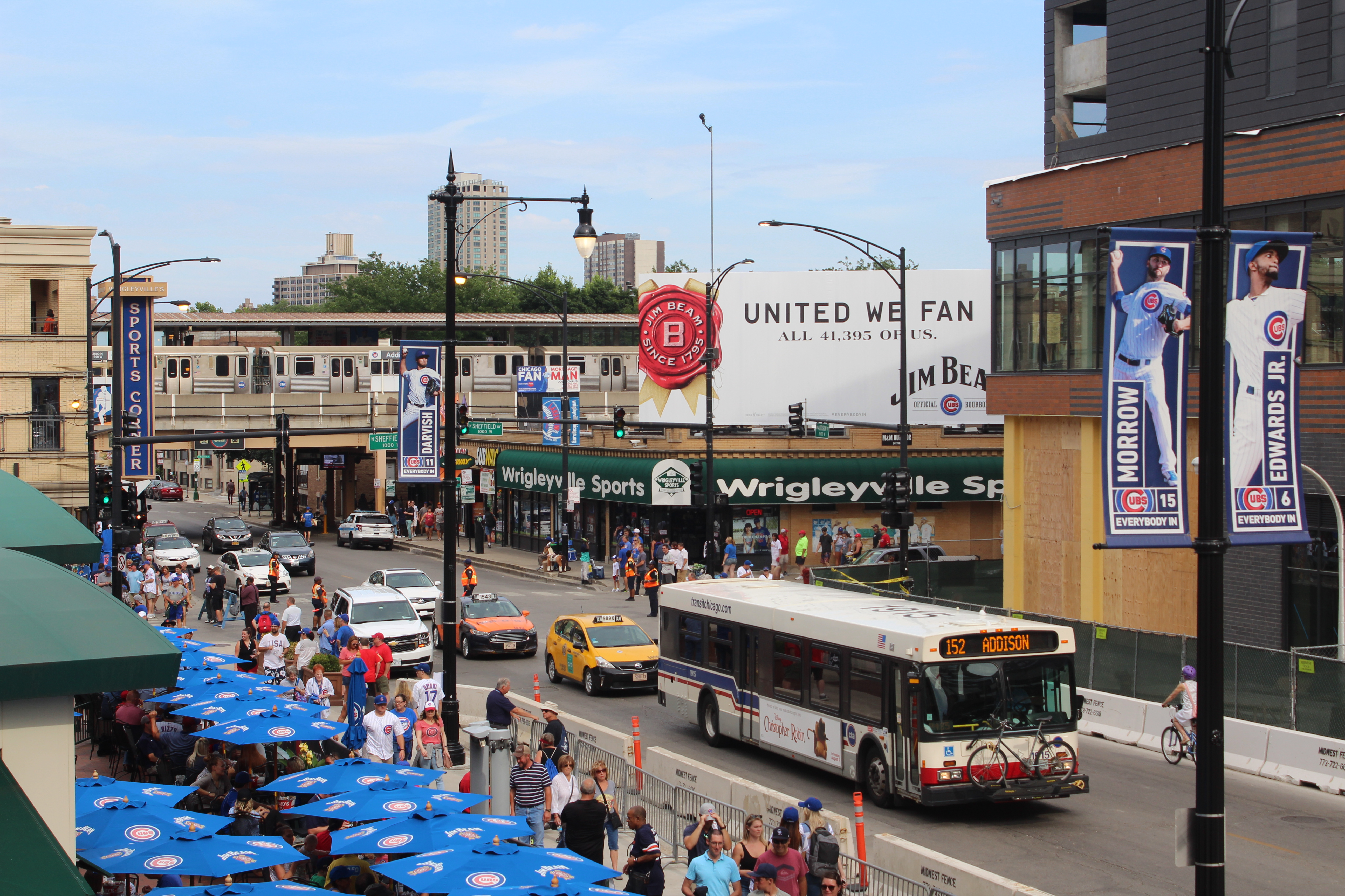 View of Wrigleyville before a Cubs game (July 19, 2018)